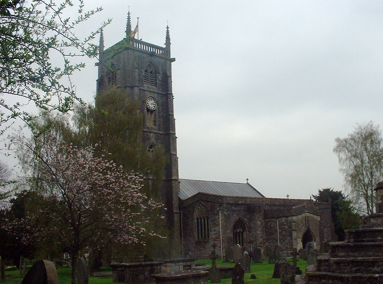 St Andrews Church, Chew Magna. Taken by Rod Ward 24th April 2006